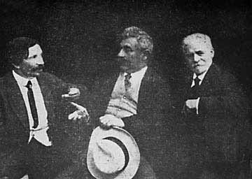 Yacov Dinezon, I.L. Peretz, Sholem Aleichem